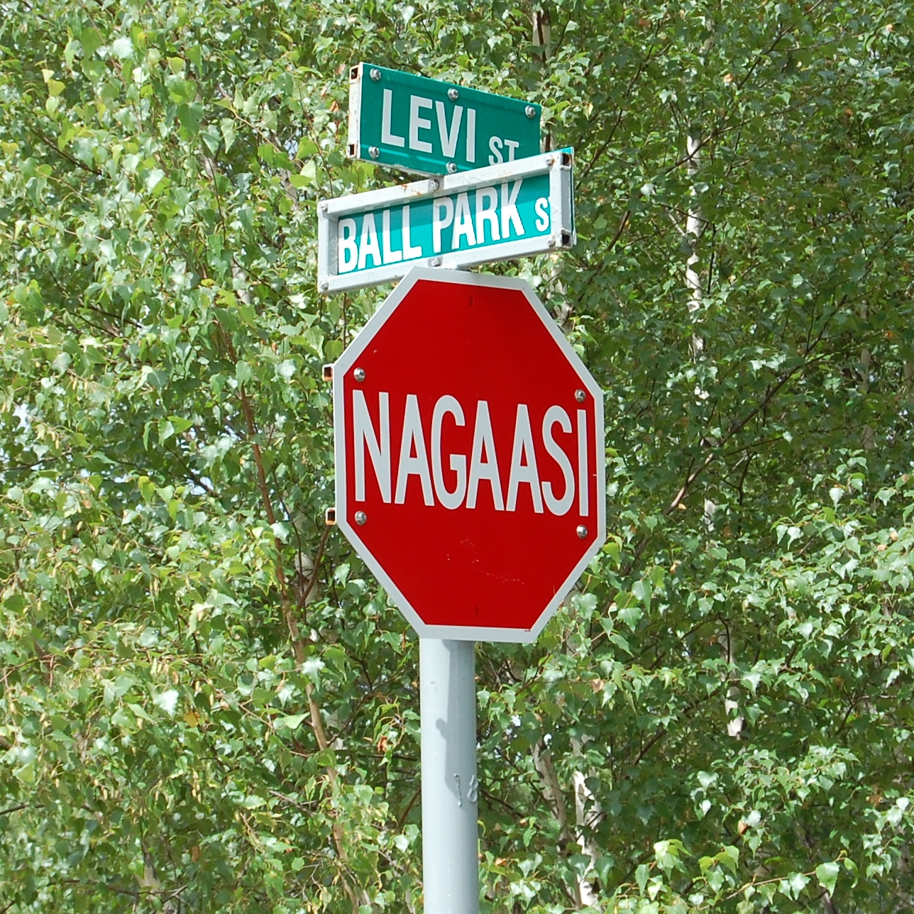 "NAGAASI": stop sign in the Mi'Kmaq (Algonquin) language. Photo taken in the Elsipogtog First Nation, New Brunswick, Canada